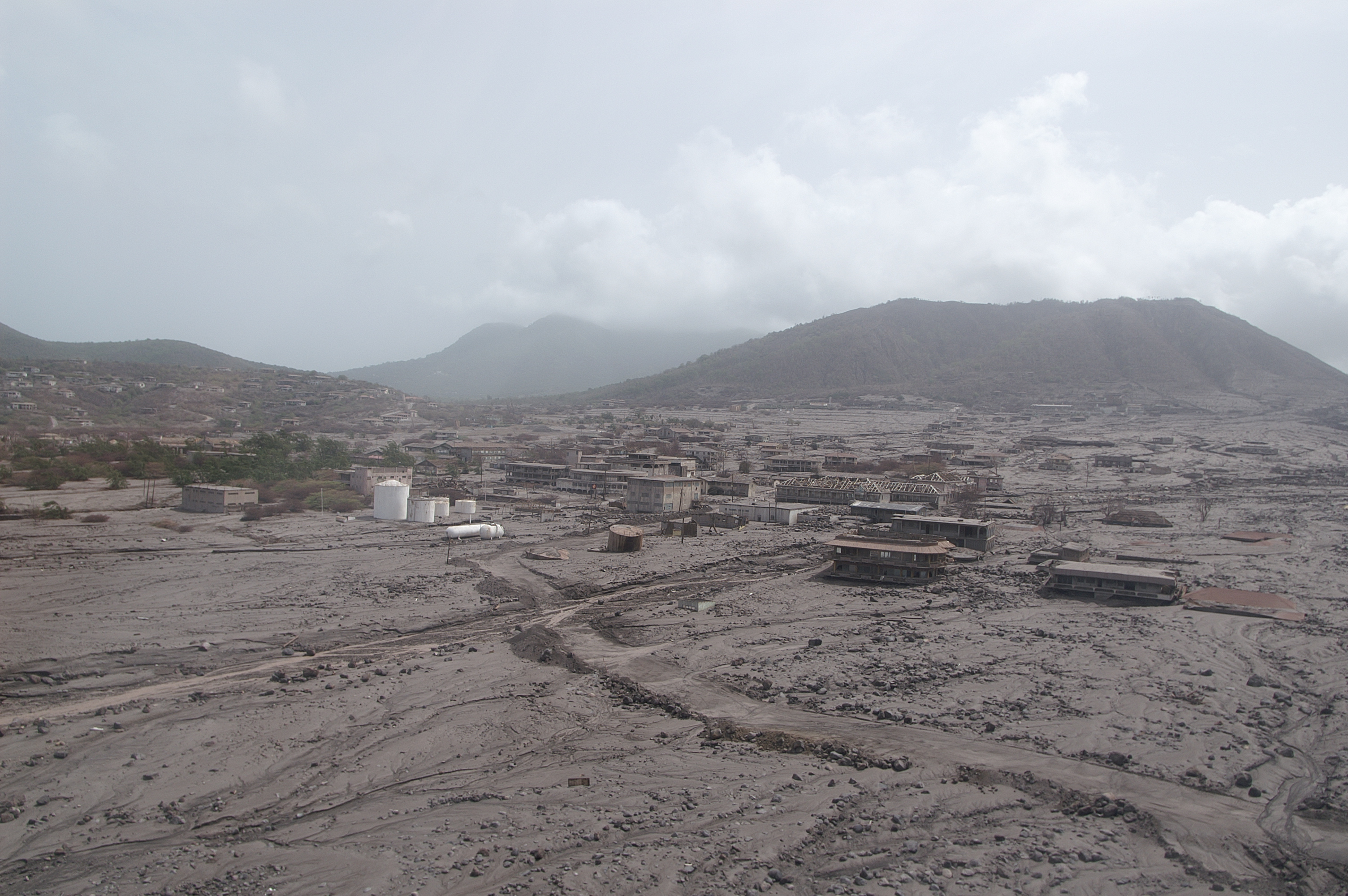 A picture taken in July of 2006 from a helicopter showing the damage from the 1996 eruption to Plymouth, Montserrat.